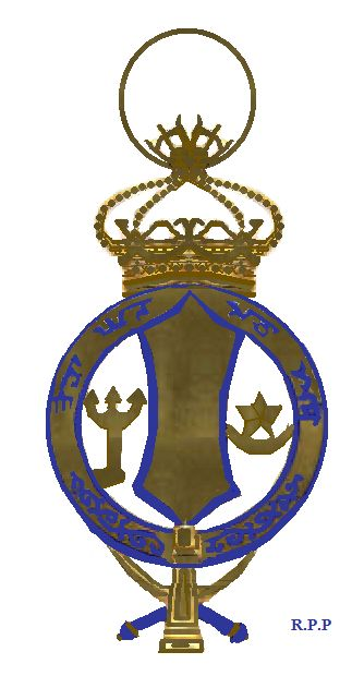 Orde_Nishan-i-Phul_van_Patiala_